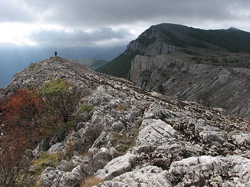 Author=Sergey Sorokin Copyright =